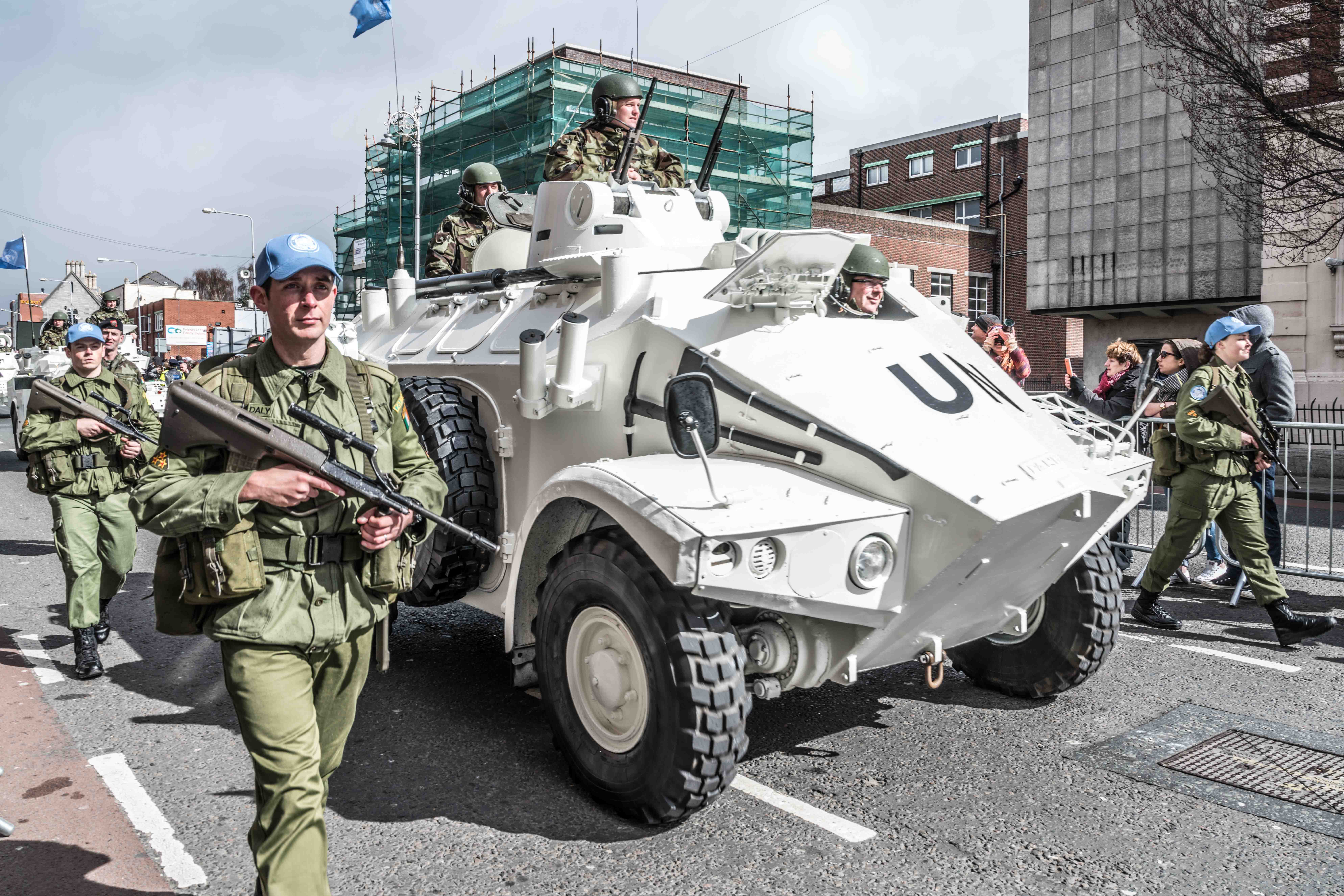 THE 2016 EASTER SUNDAY PARADE ON THE 100th. ANNIVERSARY OF THE 1916 RISING [IRISH ARMY HAS BEEN DEPLOYED ON MANY UN PEACEKEEPING MISSIONS SINCE 1958]-113059